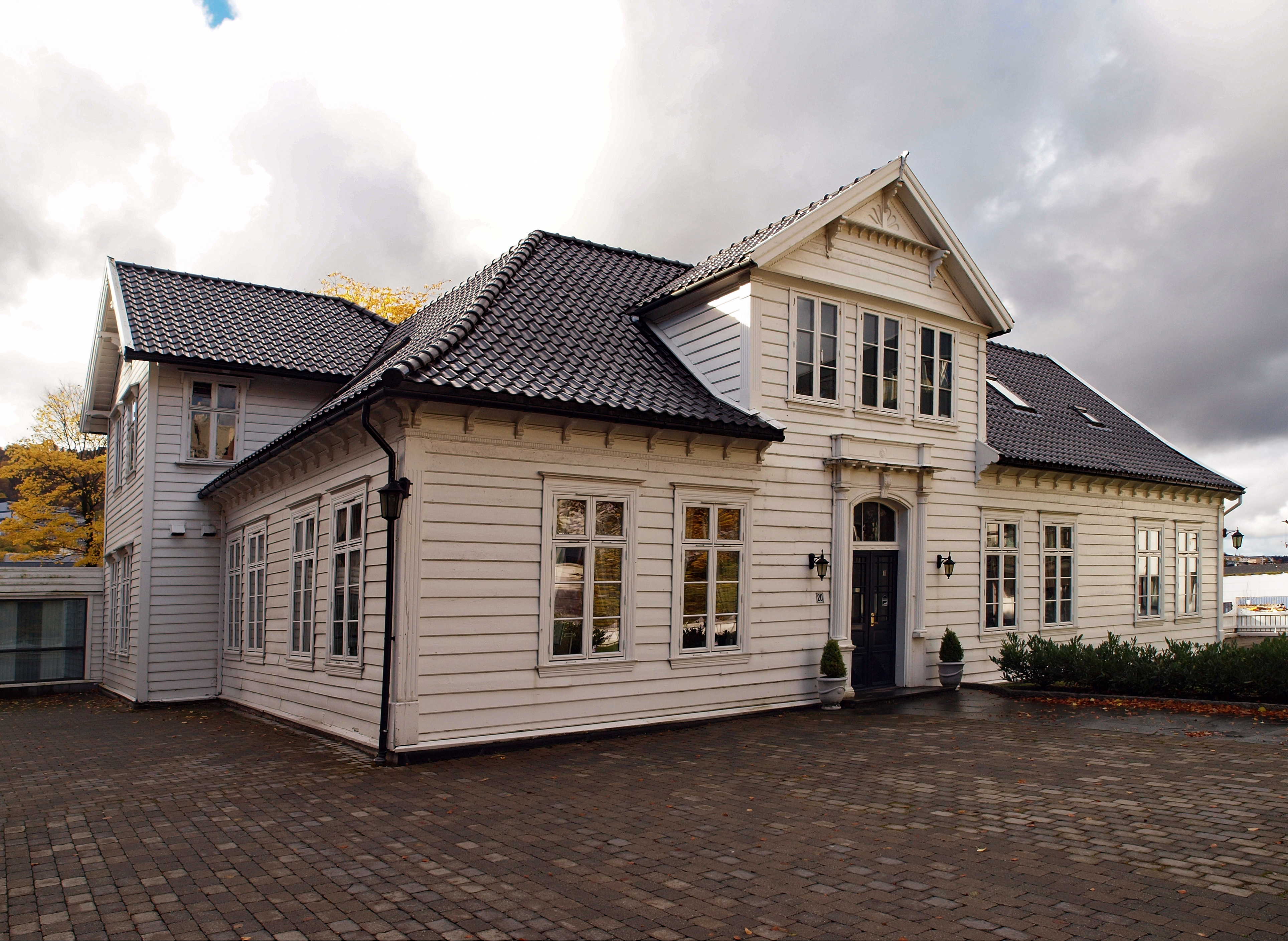 Møhlenpris Hovegård, Bergen, Norway